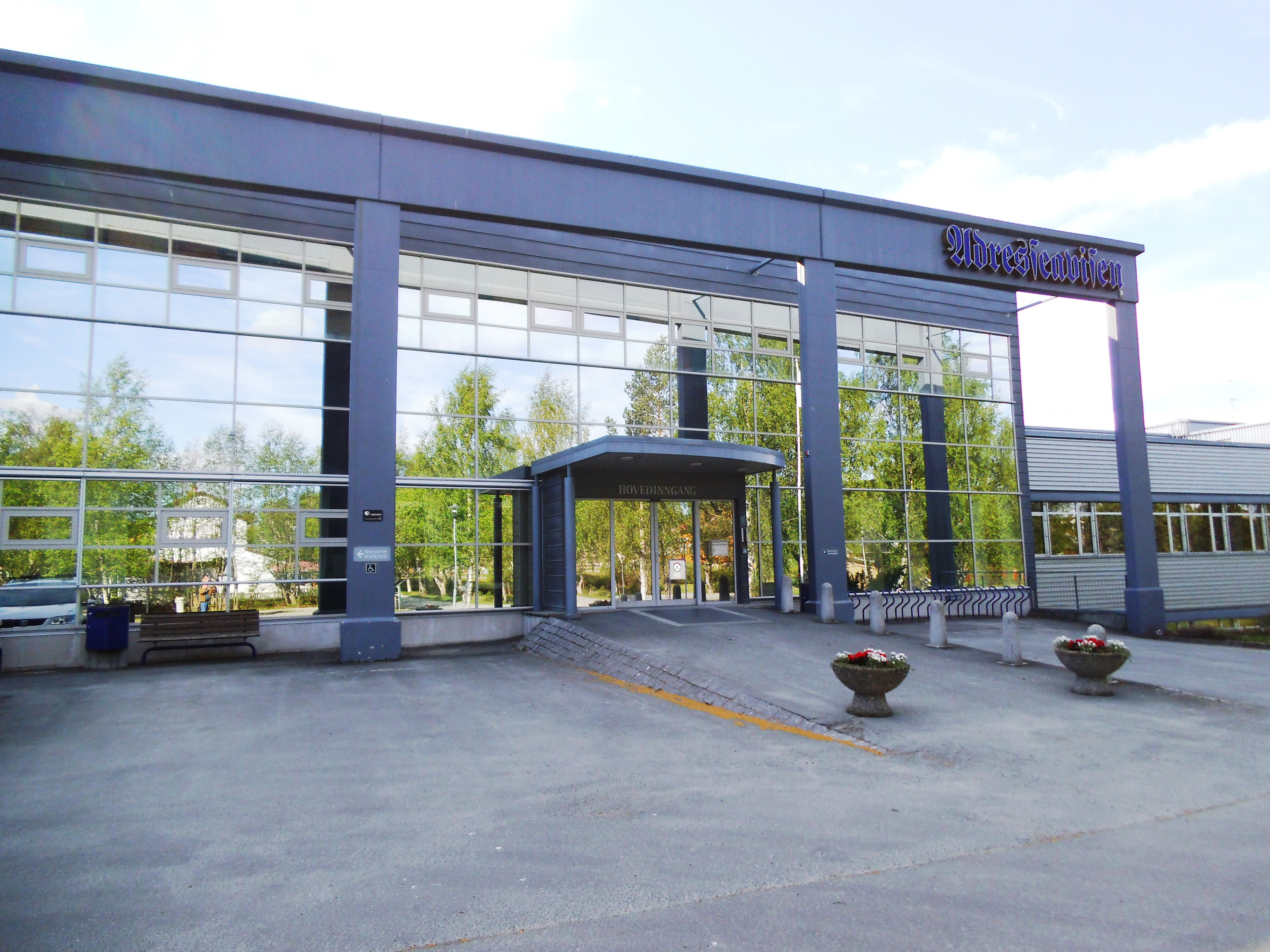 Adresseavisen is a Newspaper located in Trondheim. This is the headquarter.